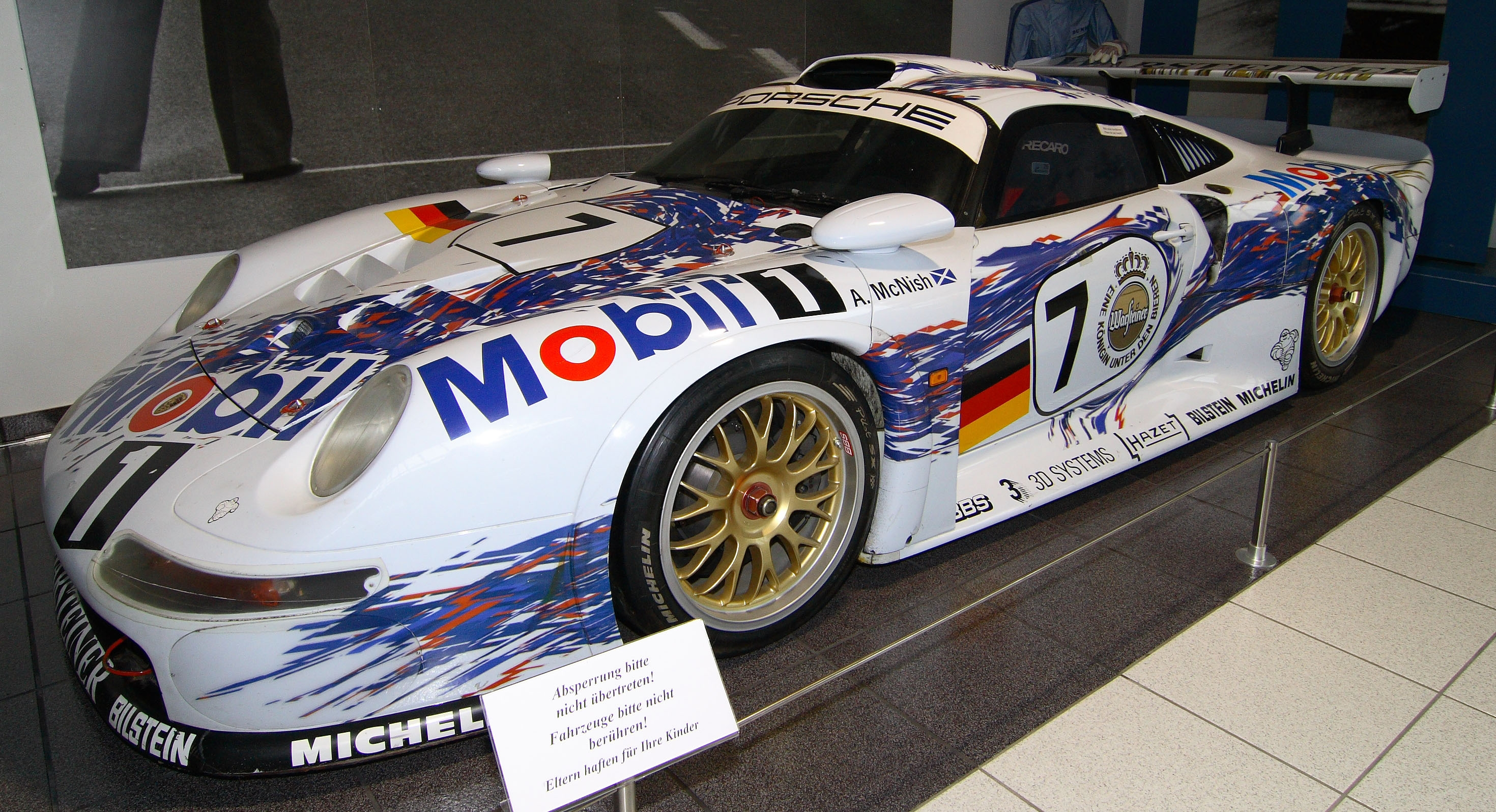 Porsche GT1 '96; Photo made in [1]